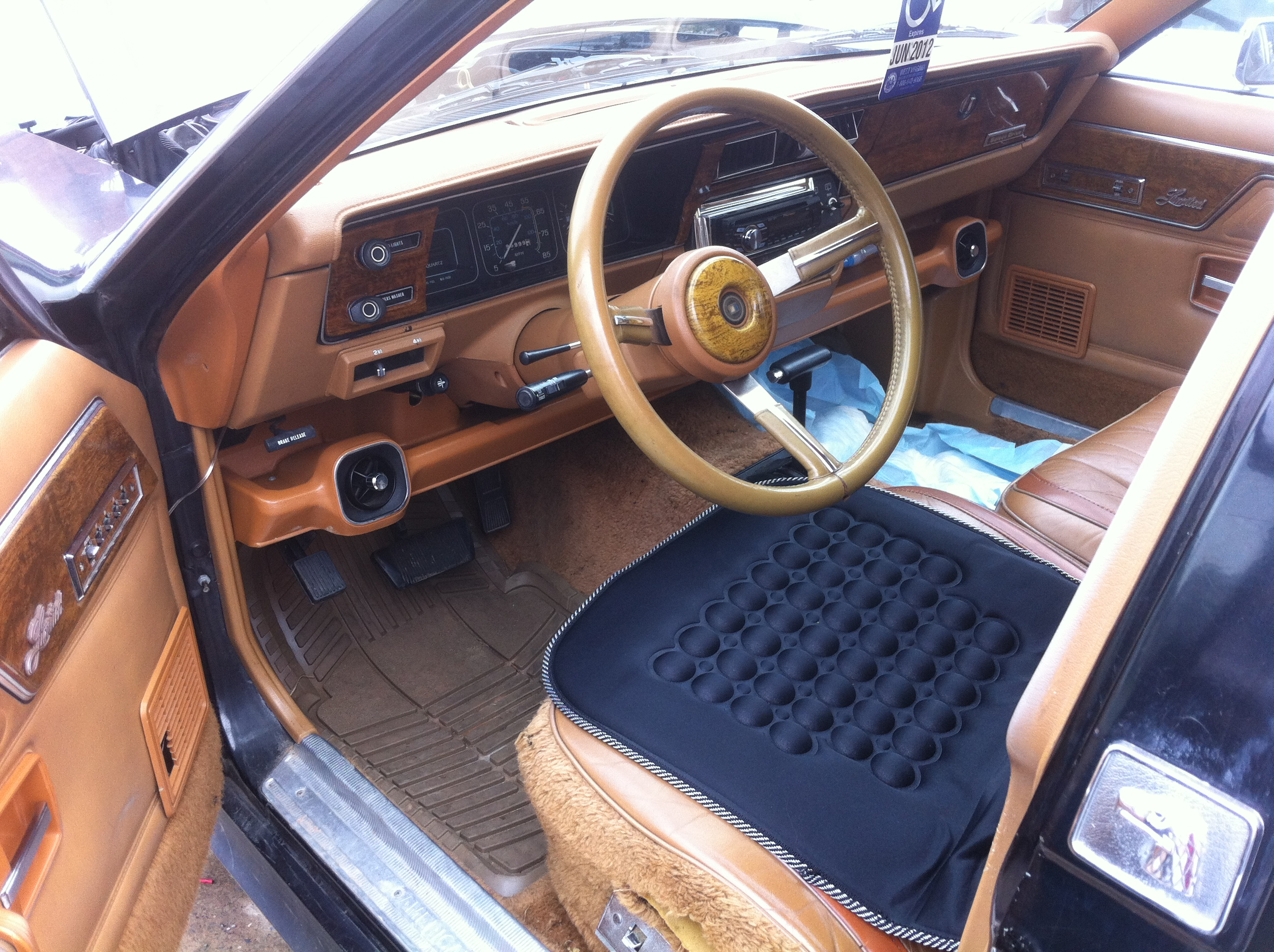 1985 AMC Eagle station wagon, an innovative automatic all wheel drive vehicle made by the American Motors Corporation (AMC). Driver's side interior view.